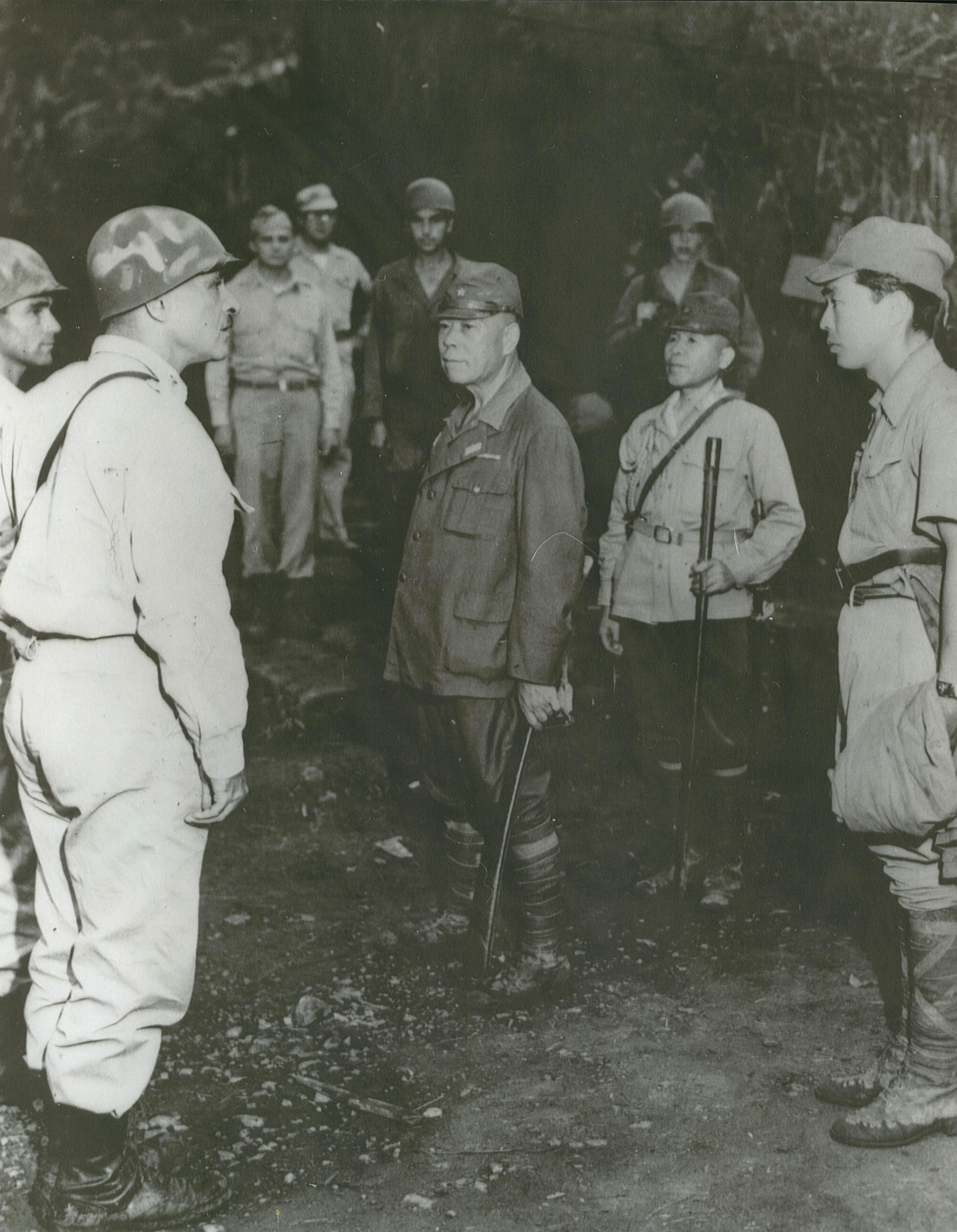 General Yamashita and his staff surrender to officers of the 32nd Infantry Division, Luzon, P.I., 2 September 1945.